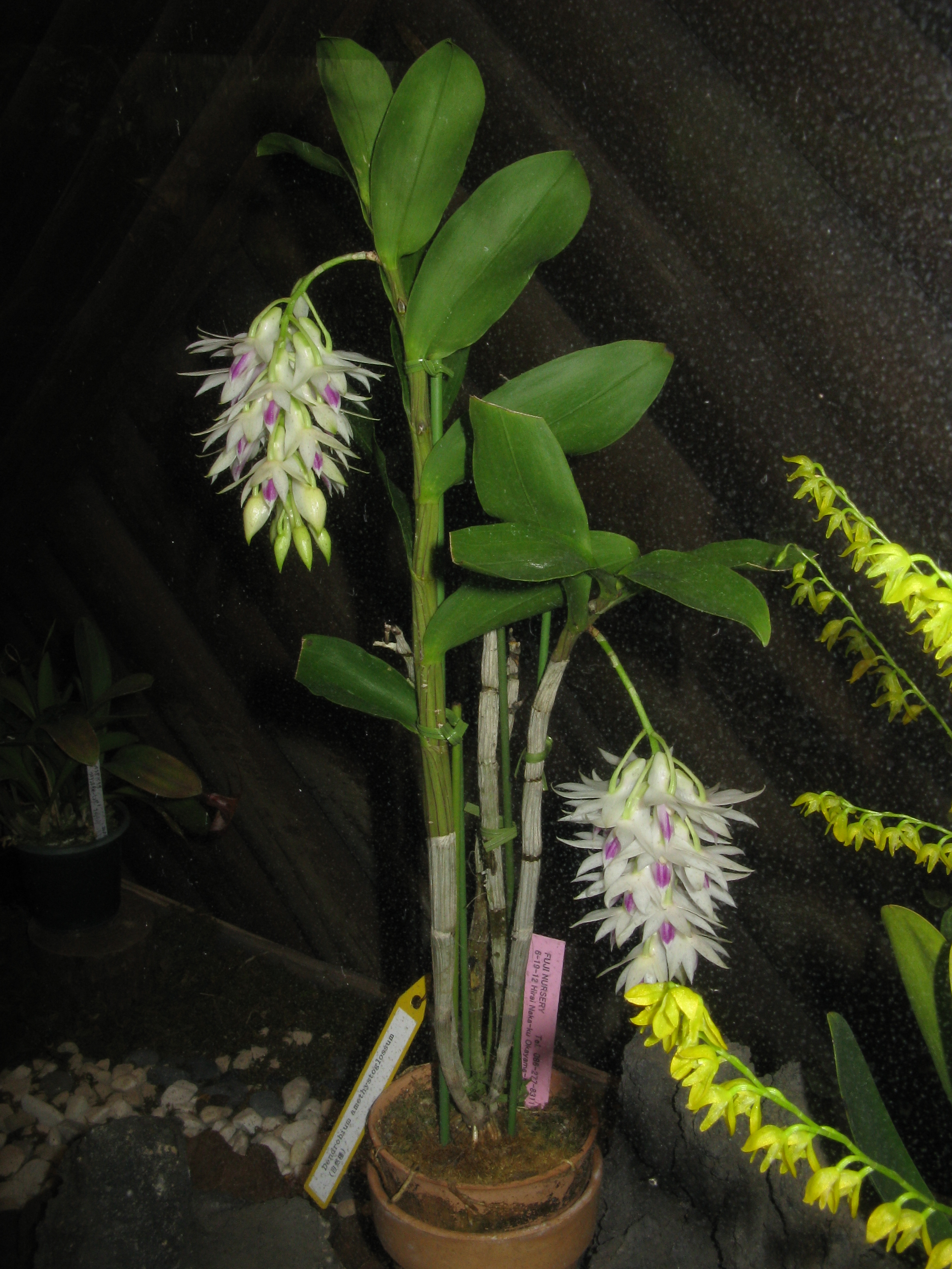 Dendrobium amethystoglossum Place:Osaka Prefectural Flower Garden,Osaka,Japan